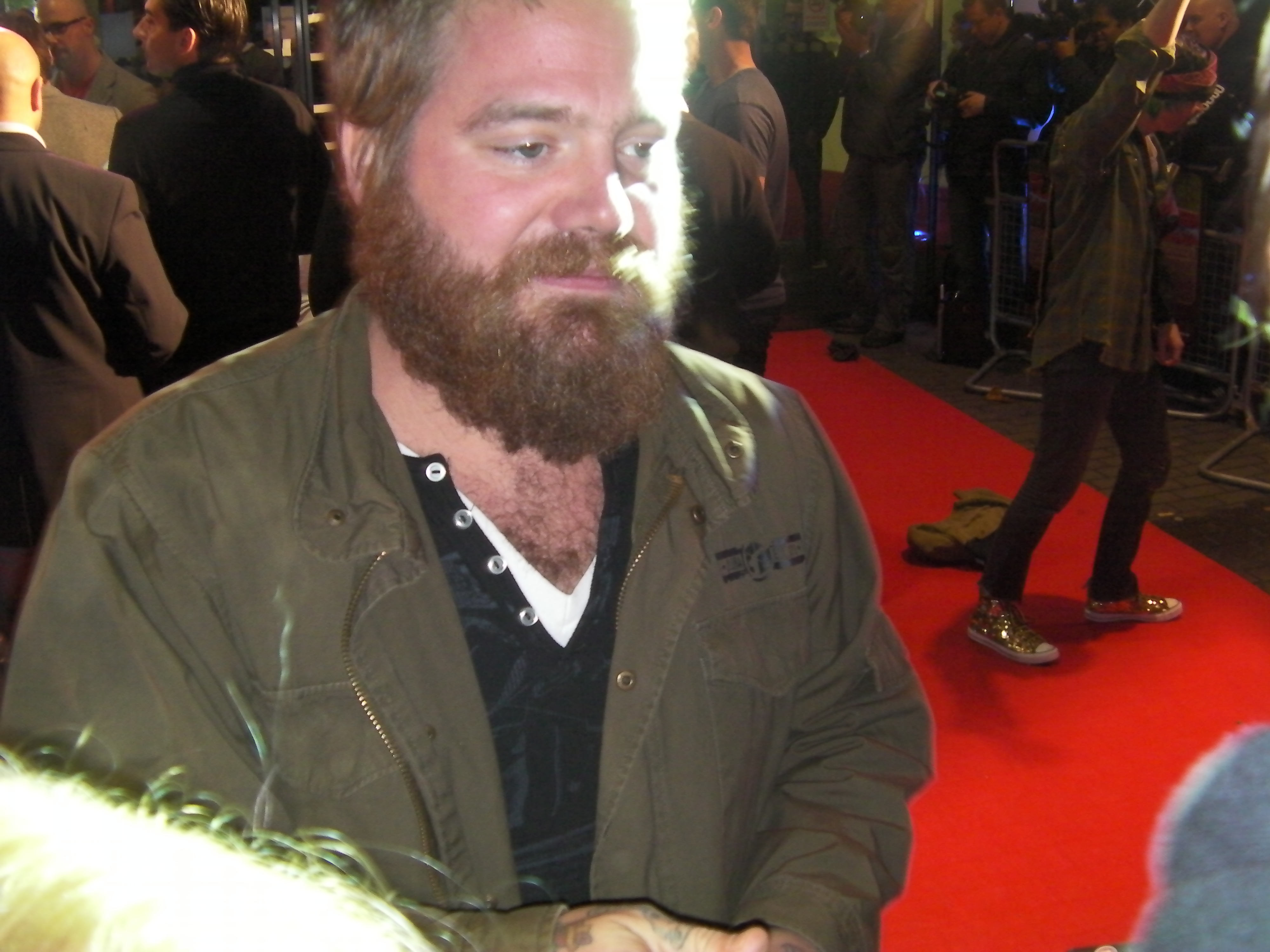 Ryan Dunn at Jackass 3D London Premiere 2nd November 2010.